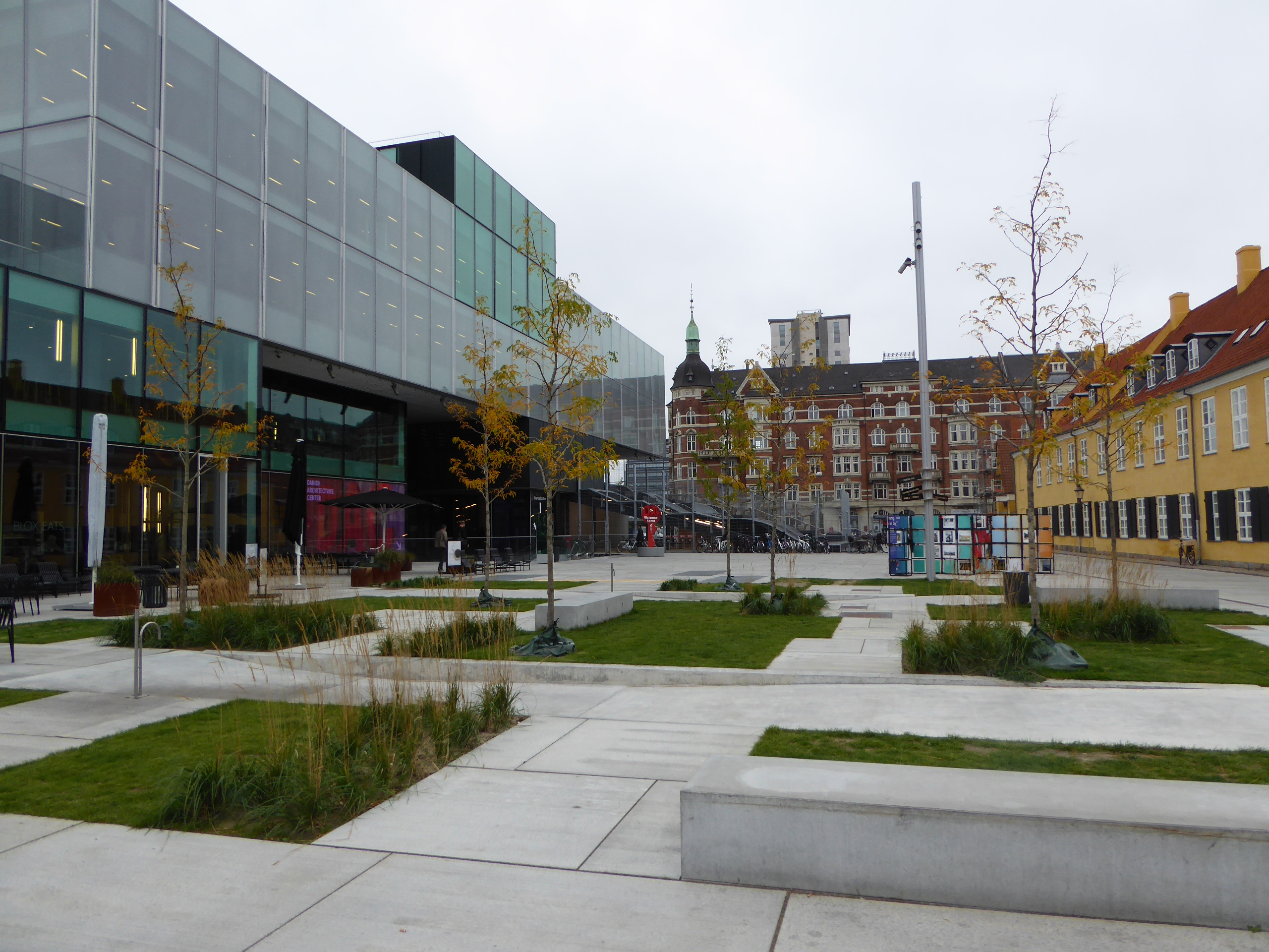 The square Bryghuspladsen in Indre By in Copenhagen. The building at the left is the new exhibition and apartment building BLOX.